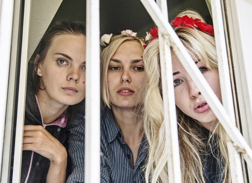 Zhdanova between Oksana Shachko (left) and Sasha Shevchenko at the Courthouse of Kiev on 28 July 2013.